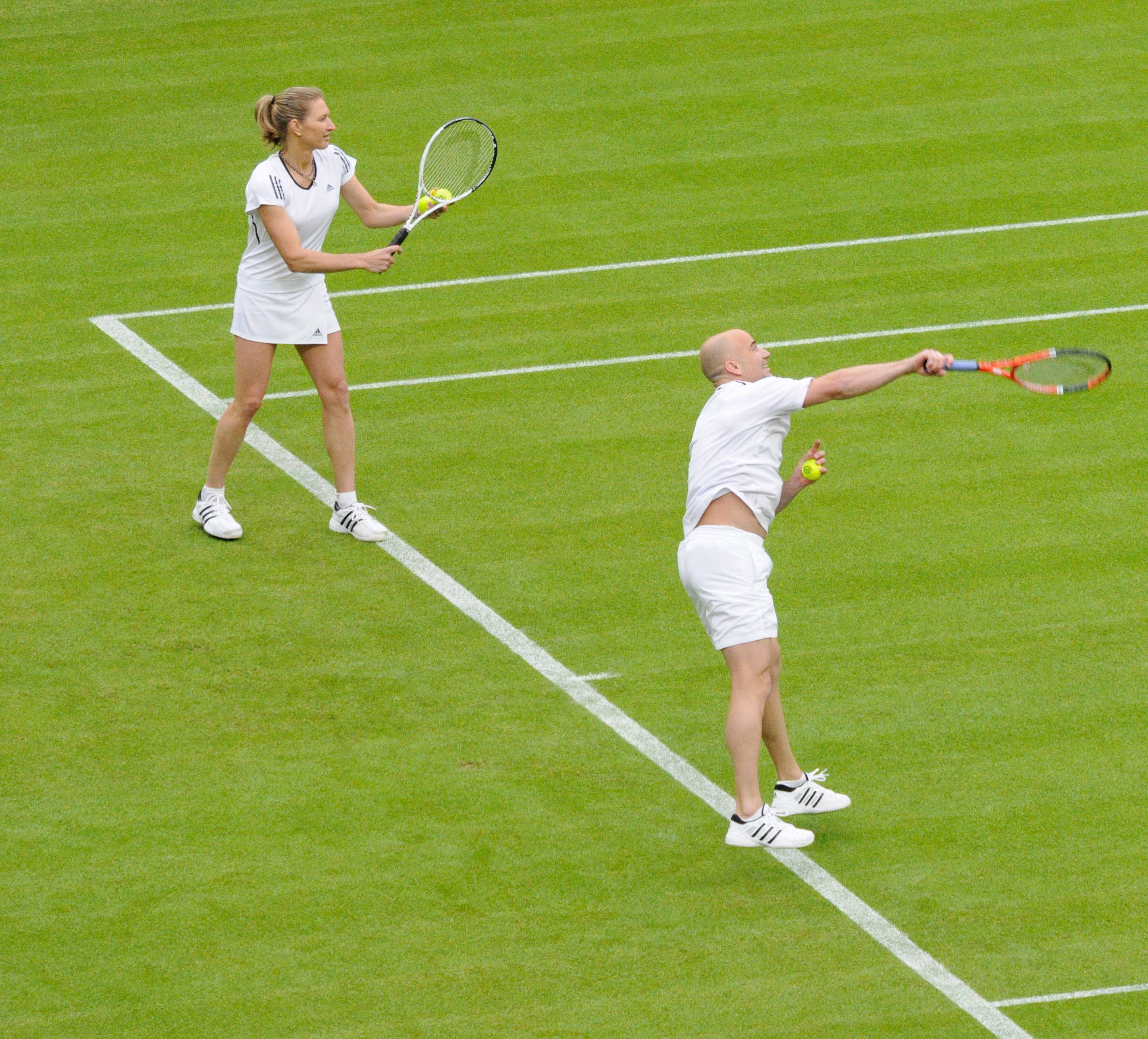 Warm up of Steffi Graf and Andre Agassi for the special event “A Centre Court Celebration” (event was designed to test a new roof and air management system with live tennis in front of a capacity crowd of 15,000 – Andre Agassi and Steffi Graf played vs. Tim Henman and Kim Clijsters)